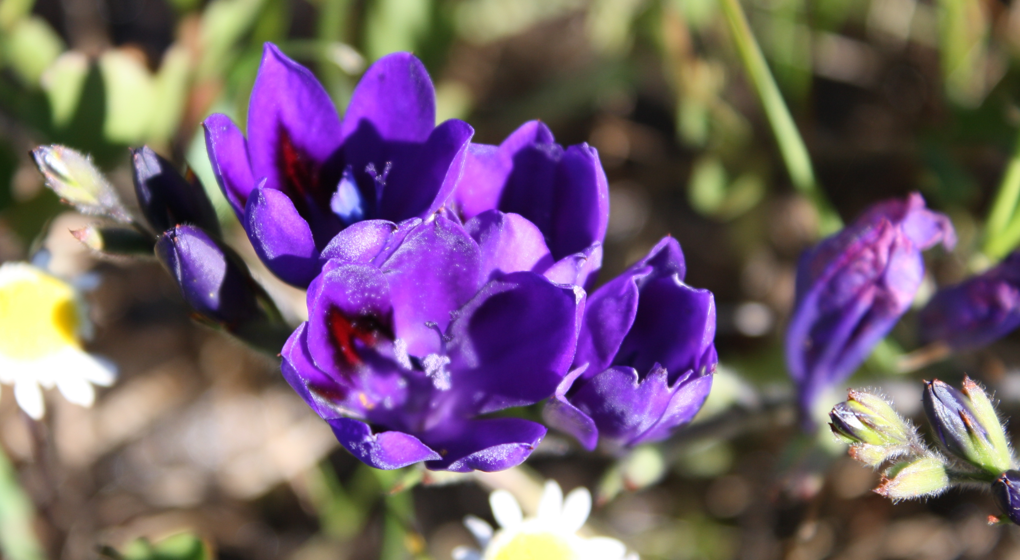 Darling, Western Cape